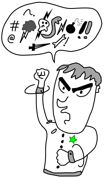 swearing in cartoon